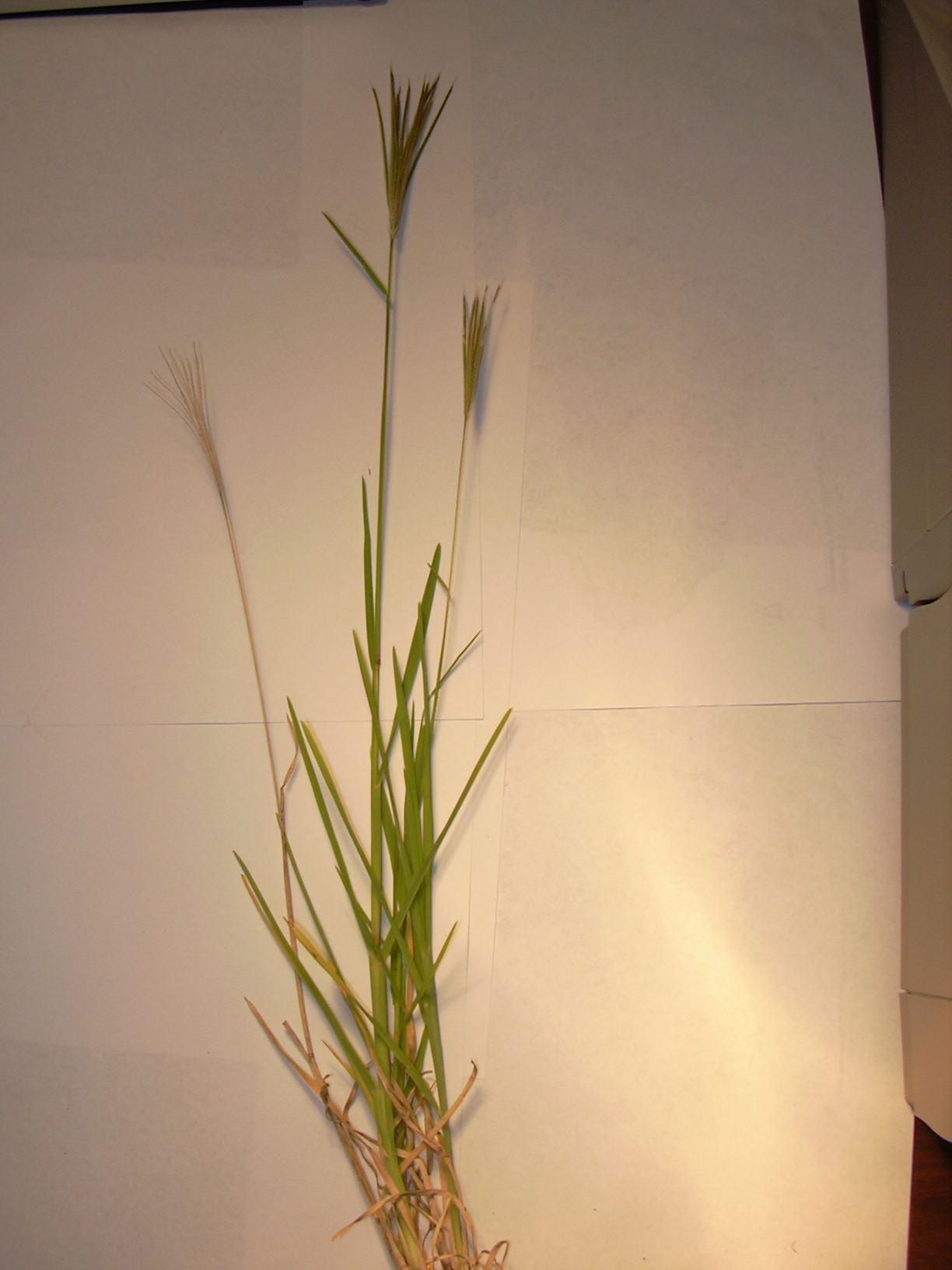 Chloris radiata (seeds). Location: Maui, Hana Hwy